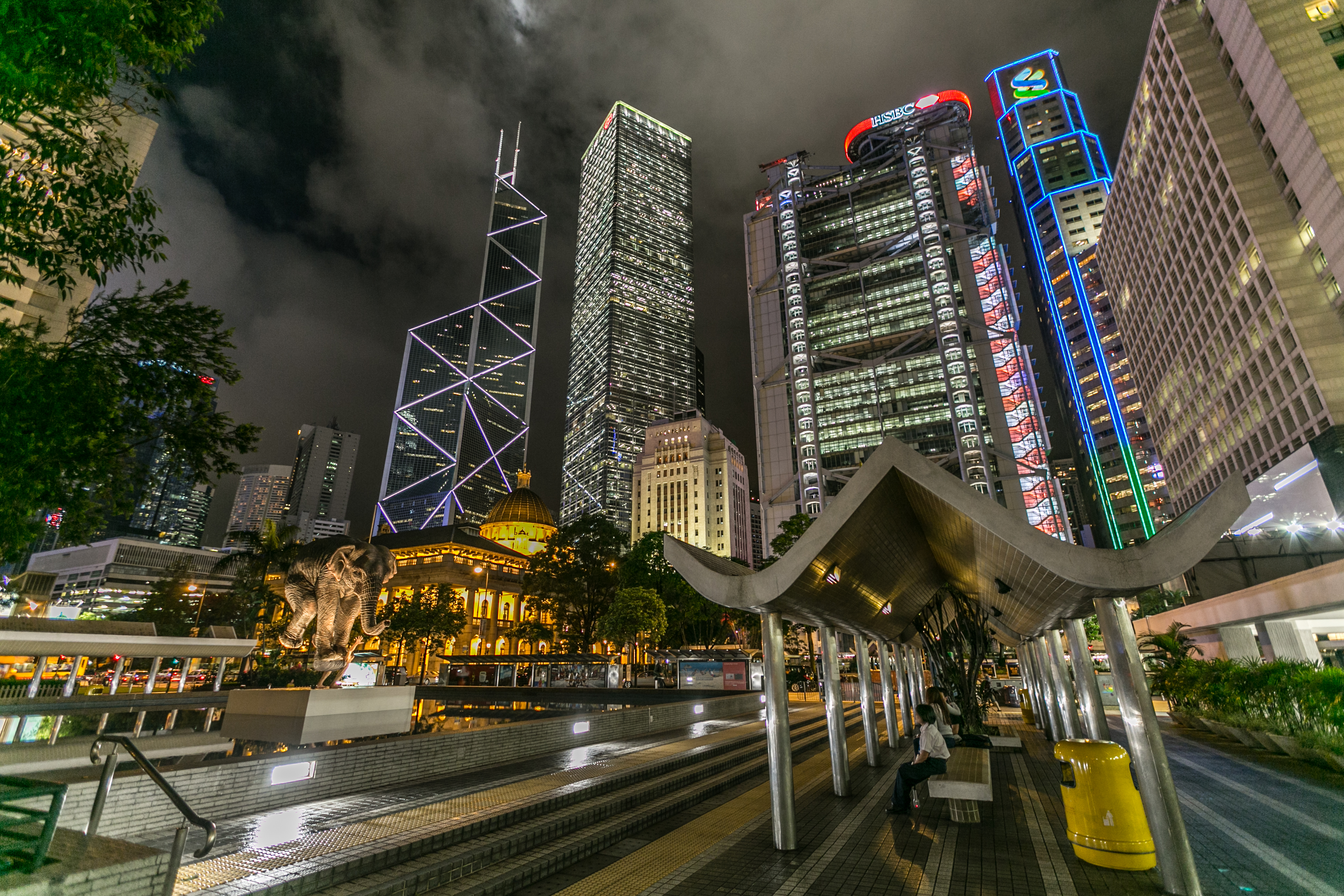 Hong Kong Central District Night View